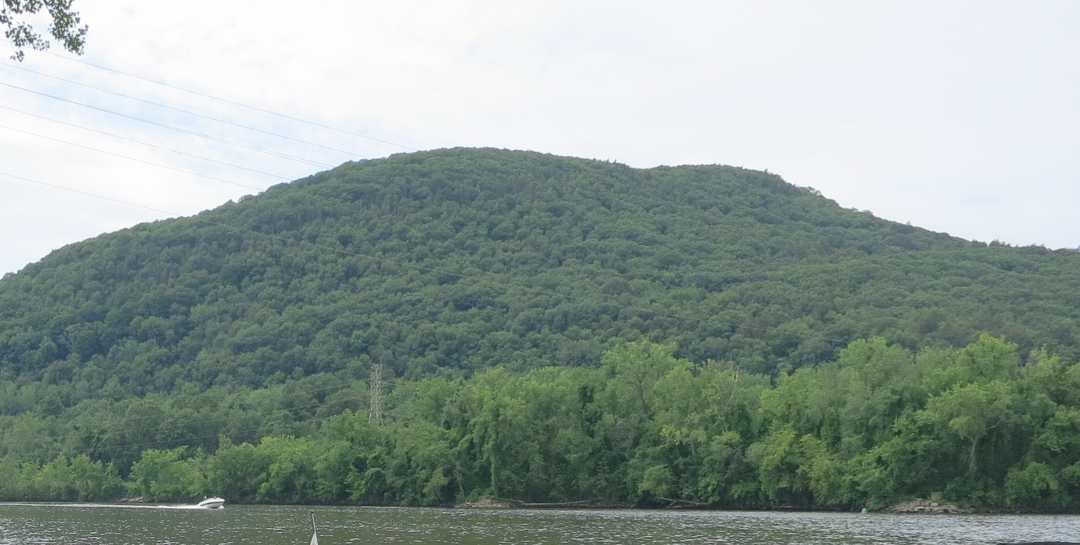 Hockanum Beach on the Connecticut River in Hadley, Massachusetts, with Mount Tom across the river